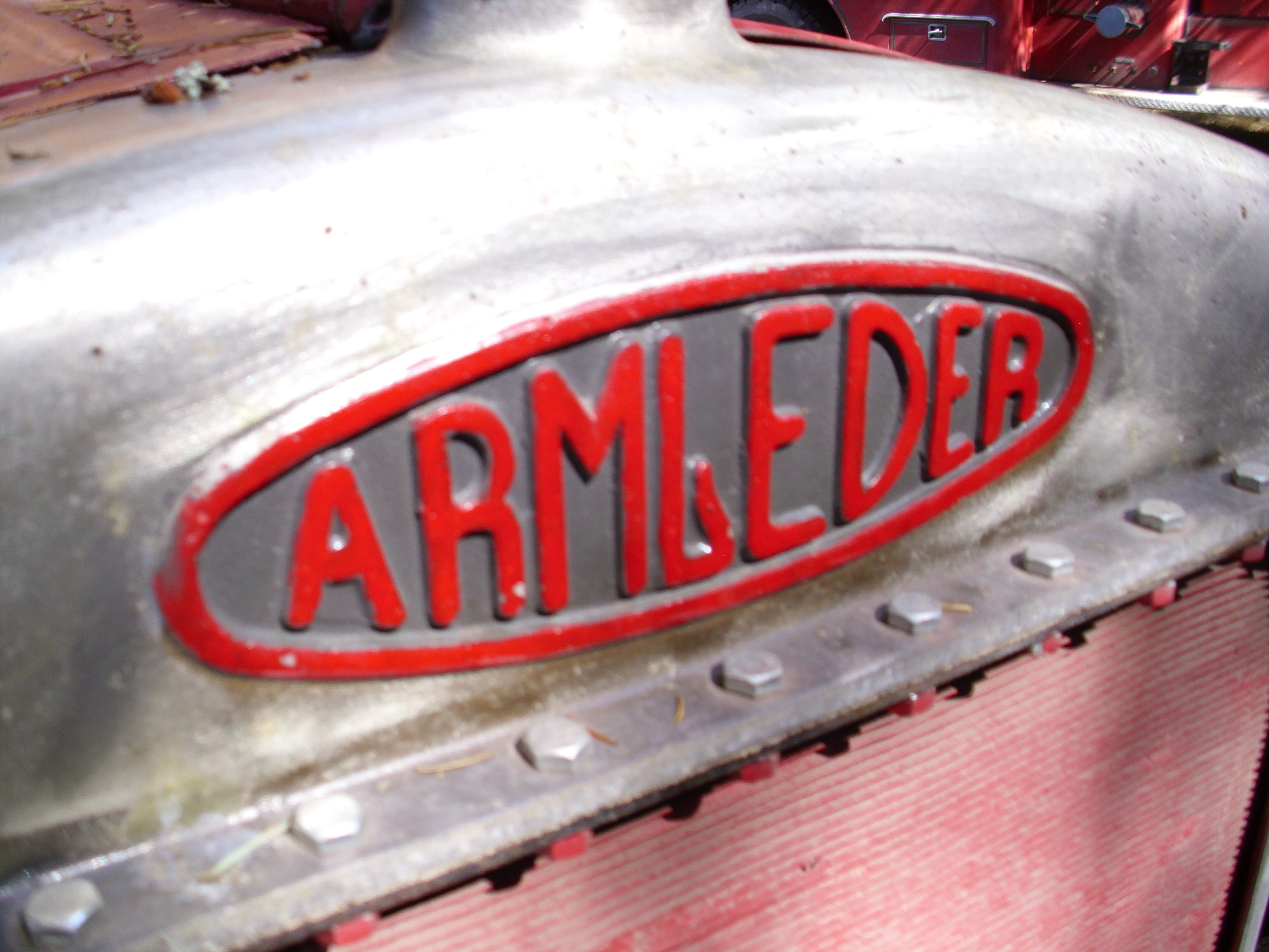 The LeMay museum and car show is a great sight for visitors, but some of us are attracted to the stuff out back. Pieces of vehicles, derelict trucks, cars and industrial equipment. Over the years, much has been donated to the collection and Harold kept some of his broken down garbage trucks and tow trucks. Also there are a bunch of shipping containers and sheds full of things being saved for future projects. This once-a-year opportunity was great for some of us adventurers.